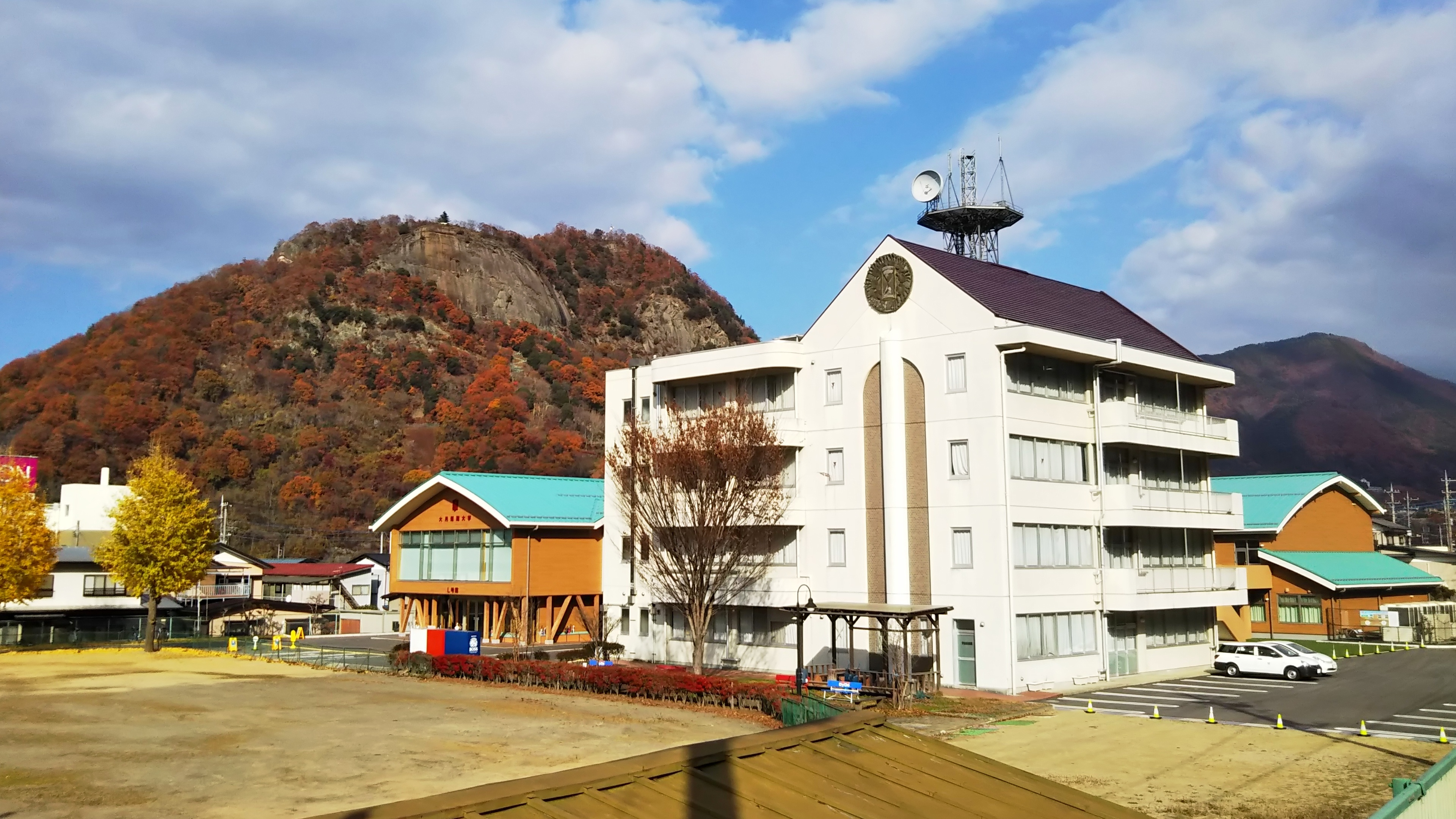 Ohtsuki City College and Mount Iwadono (left) in Otsuki, Yamanashi, Japan.